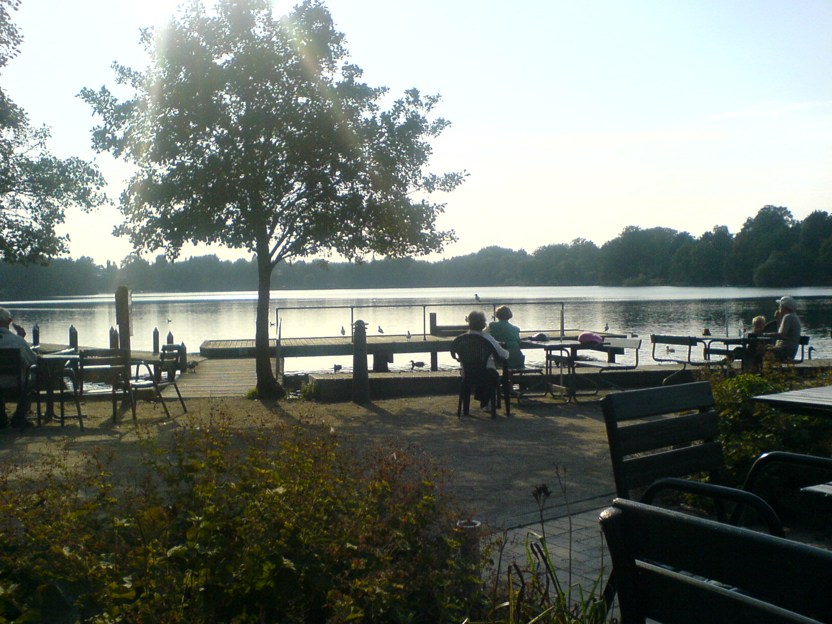 The view from Holte Havn (Habor in Holte, Denmark) against Vejlesø.